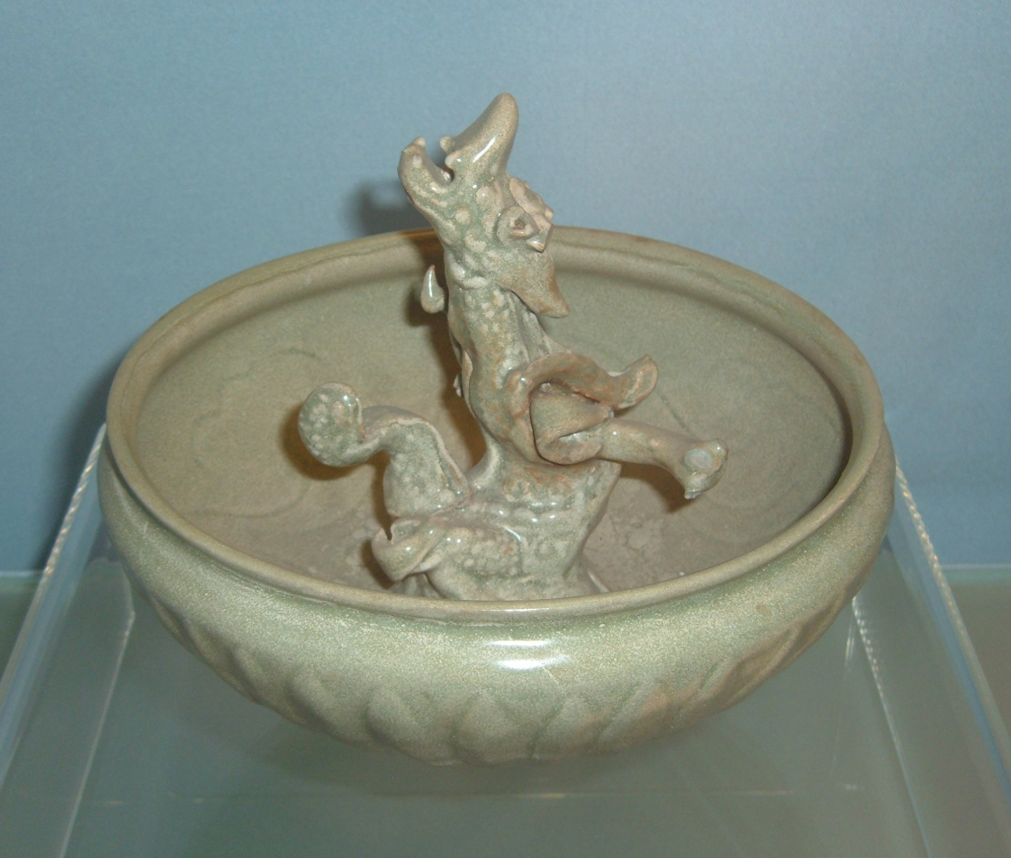 Celadon bo (bowl) with modeled dragon design. Longquan ware, Yuan Dynasty, reign of Daoguang (1271-1368). On display at the Shanghai Museum in Shanghai, PRC.